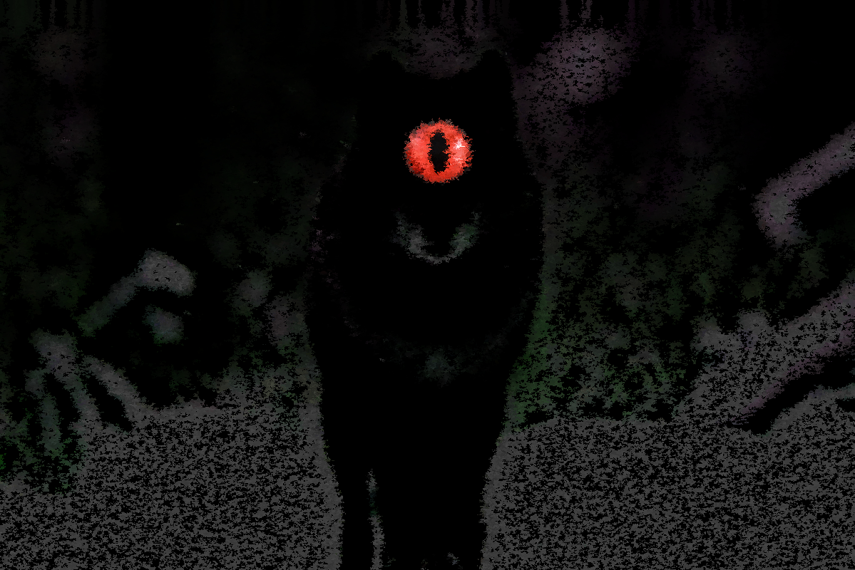 Artists Rendition of The Black Shuck of East Anglia based on the description by W.A. Dutt.